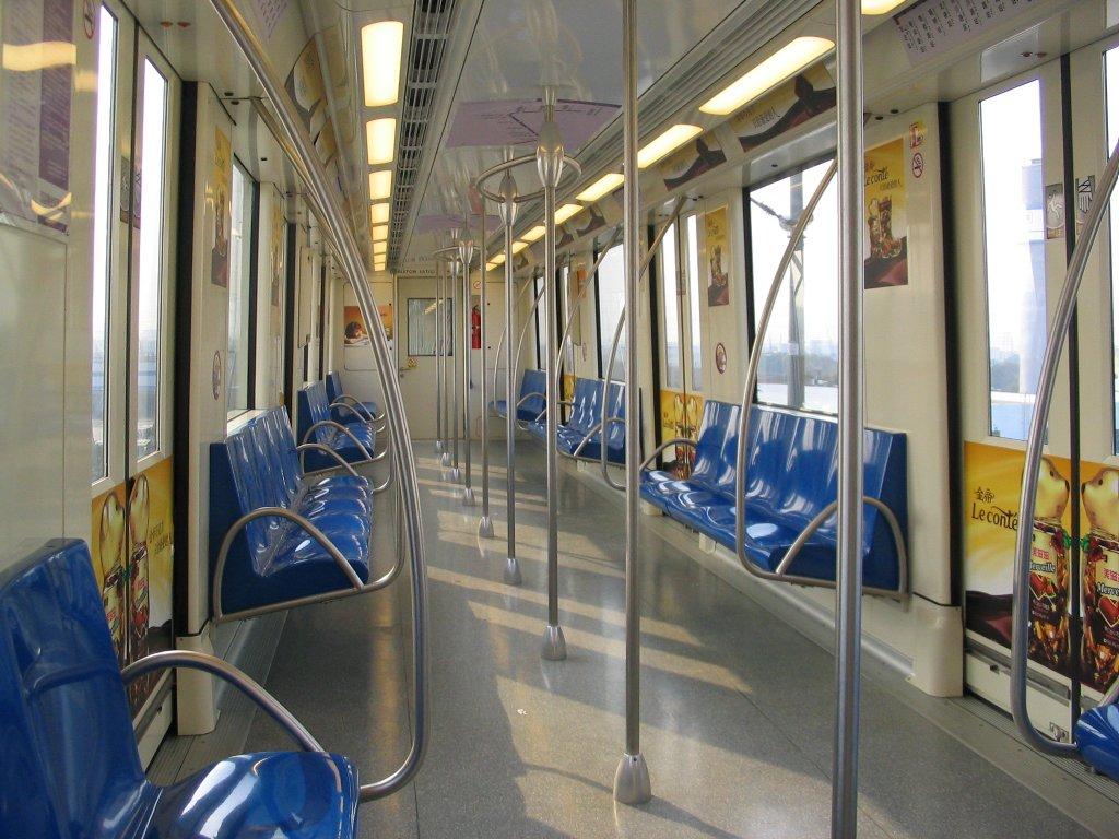 上海軌道交通5號線列車車廂 Interior of Shmetro Line 5 Train